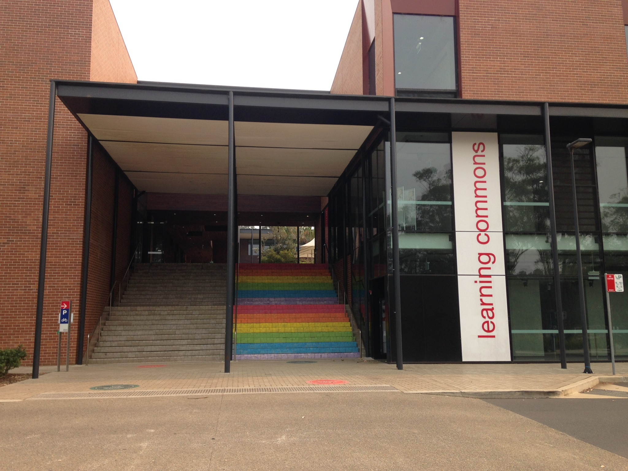 Exterior entrance to the Learning Commons building at Charles Sturt University Port Macquarie campus